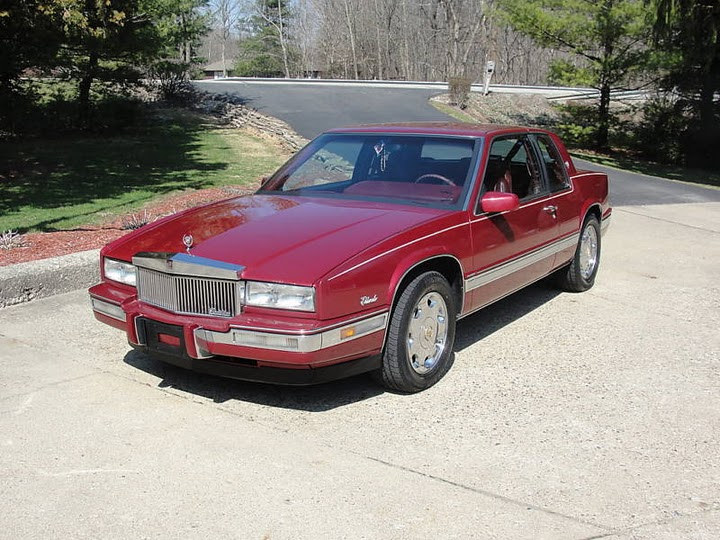 7th generation Cadillac Eldorado